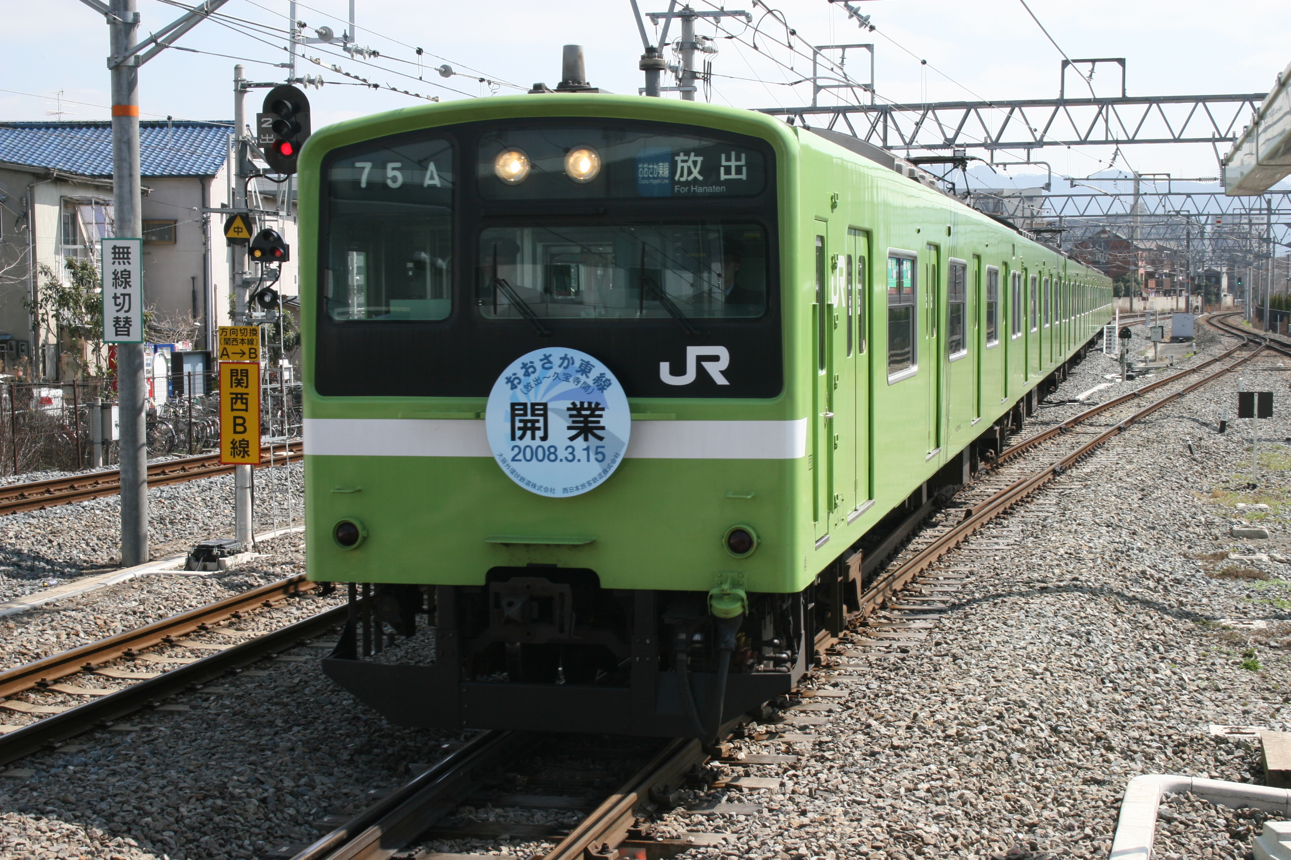 Series 201 EMU of West Japan Railway Company entering into Kyuhoji Station in Yao, Osaka from a sidetrack prior to its departure as an Osaka Higashi Line local train. Taken on the day of the opening of the line.